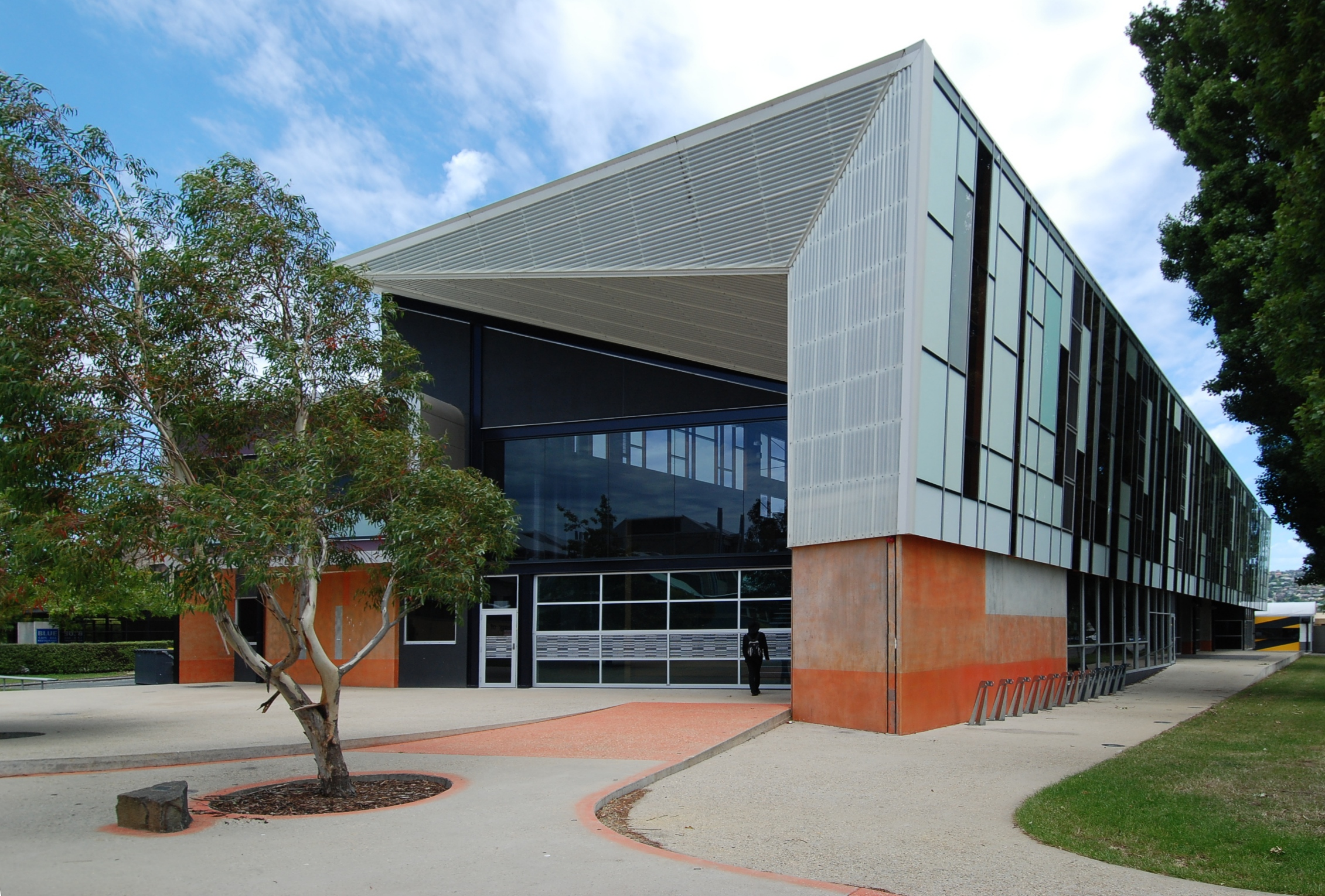 Australian Technical College (ATC) at Inveresk, Launceston, Tasmania. Designed by Birrelli Architects, 2009.